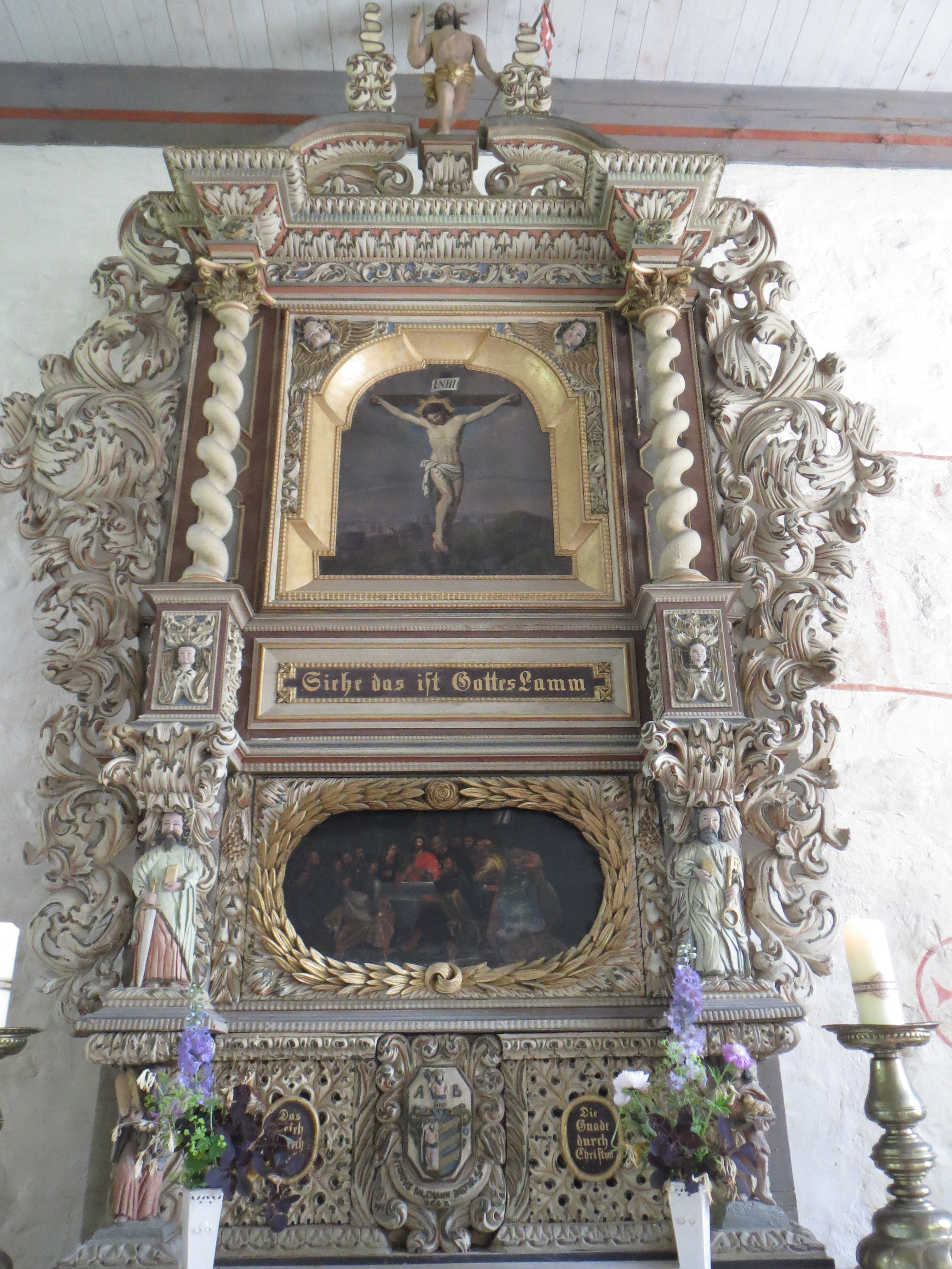 Maria-Magdalena-Kirche Schlatkow